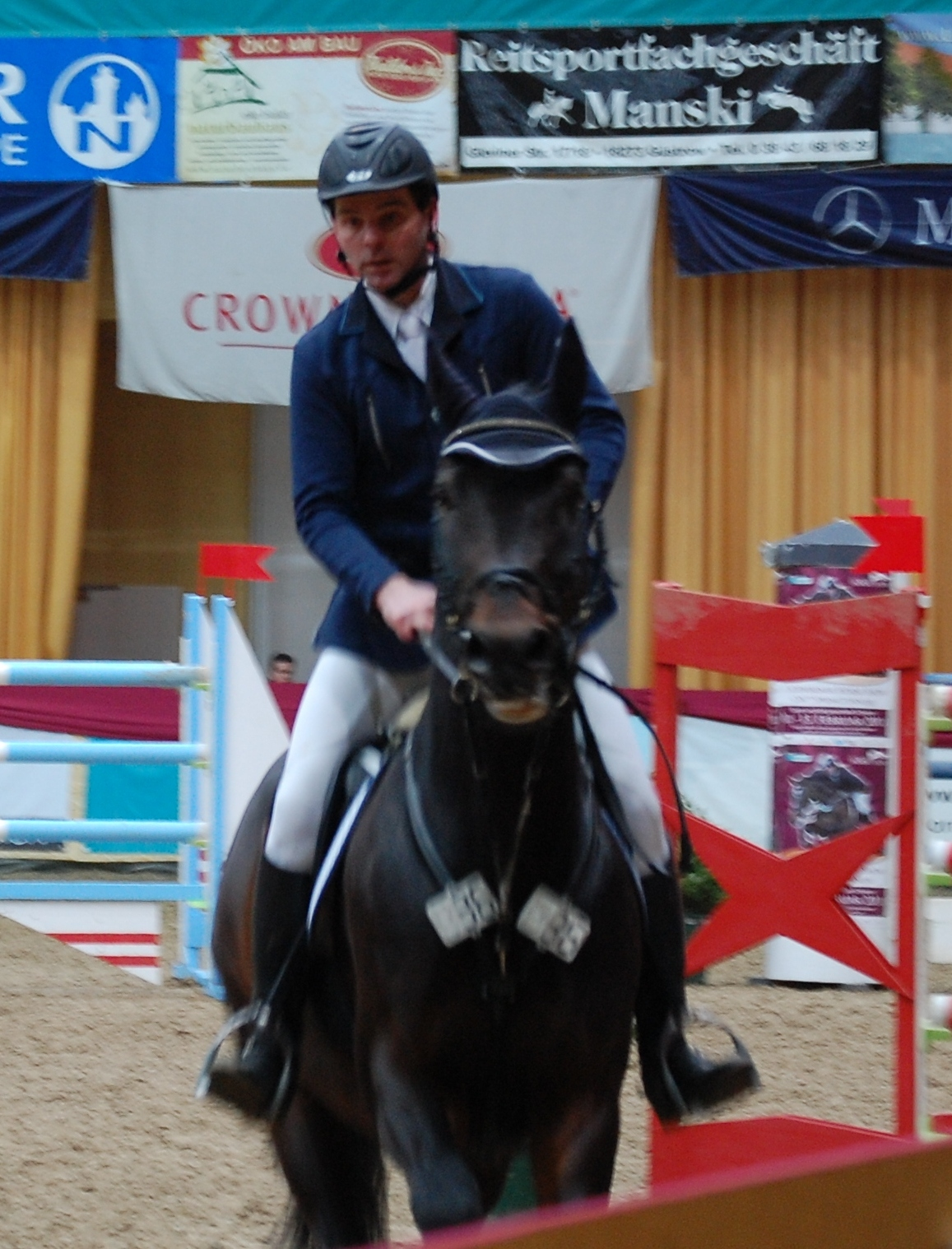 Lutz Gripshöver and Amaretto, Prize of the Stadtwerke Schwerin (national show jumping competition), Schweriner Horse Show in the Sport- und Kongresshalle Schwerin, February 2011